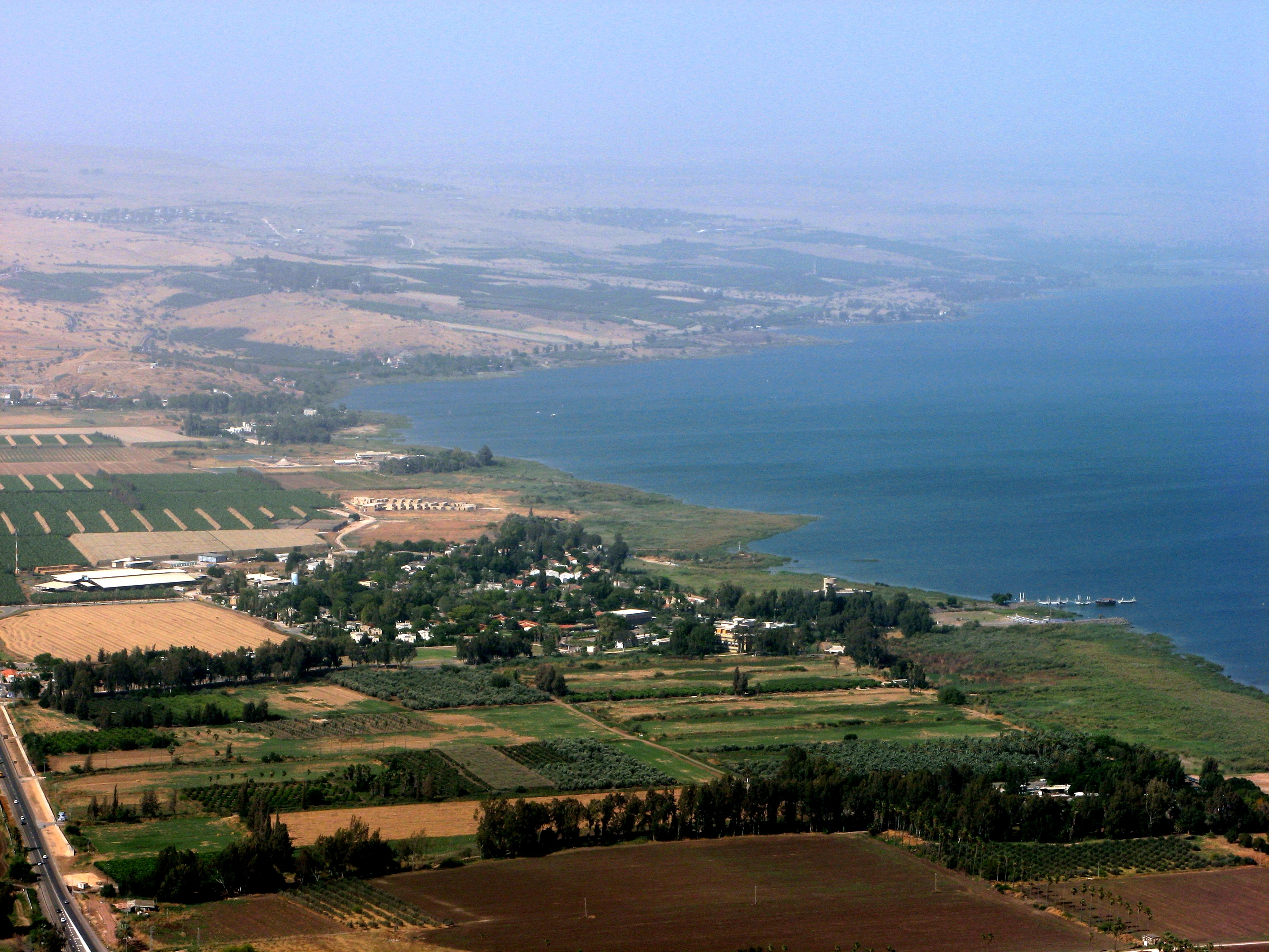 Ginosar from the Arbel